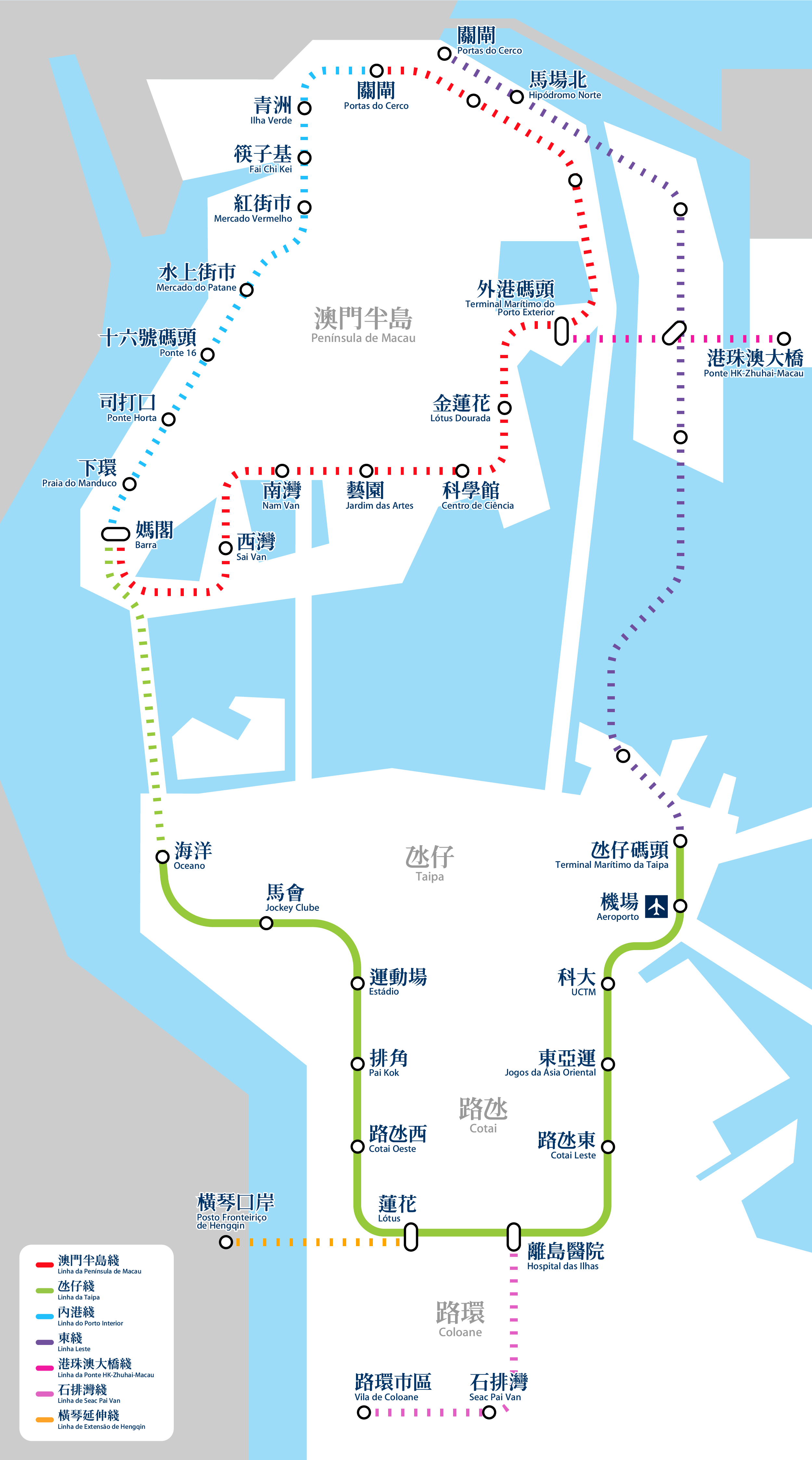 Macau LRT System Map